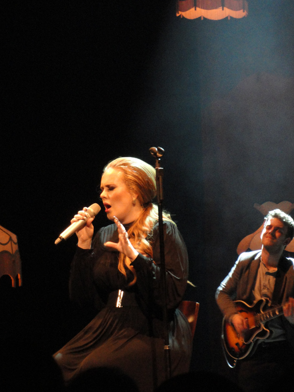 Adele - Seattle, WA - 8/12/2011